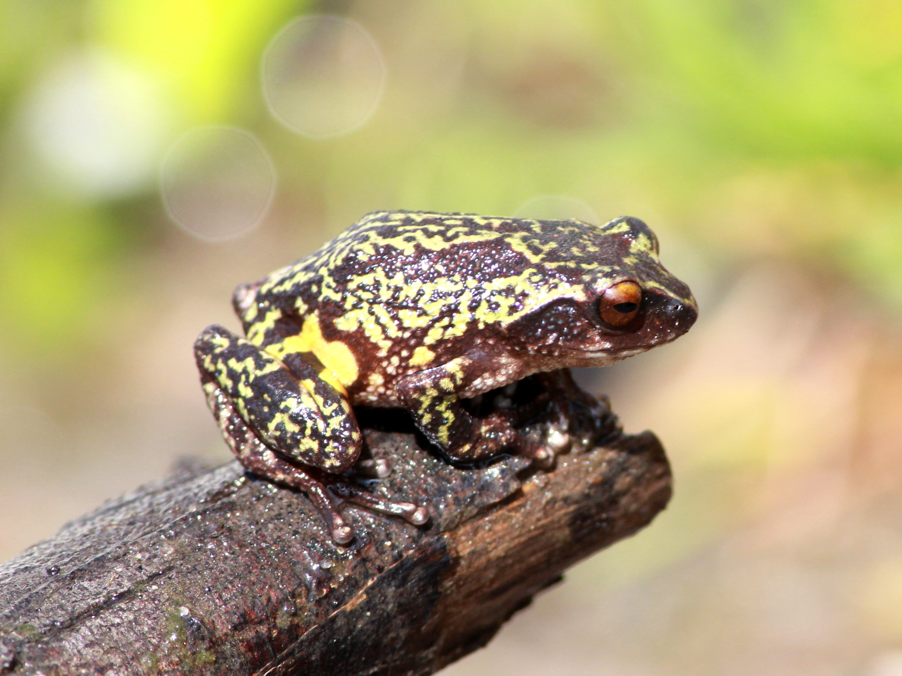 Raorchestes dubois in Anamudi Shola National Park , Munnar